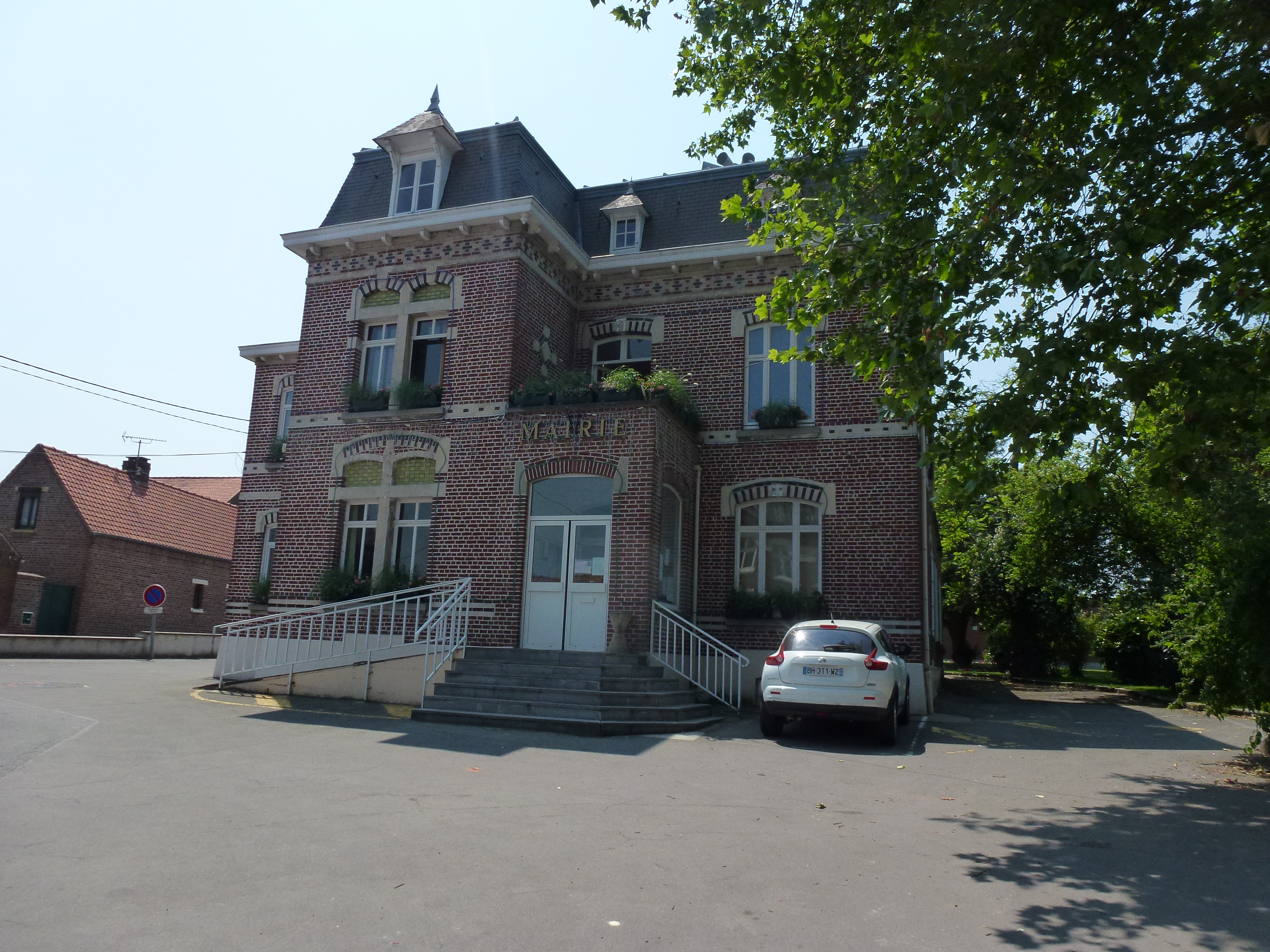 Thumeries (Nord, Fr) mairie